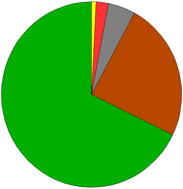 Chart of the space partitioning of Hesselbach.